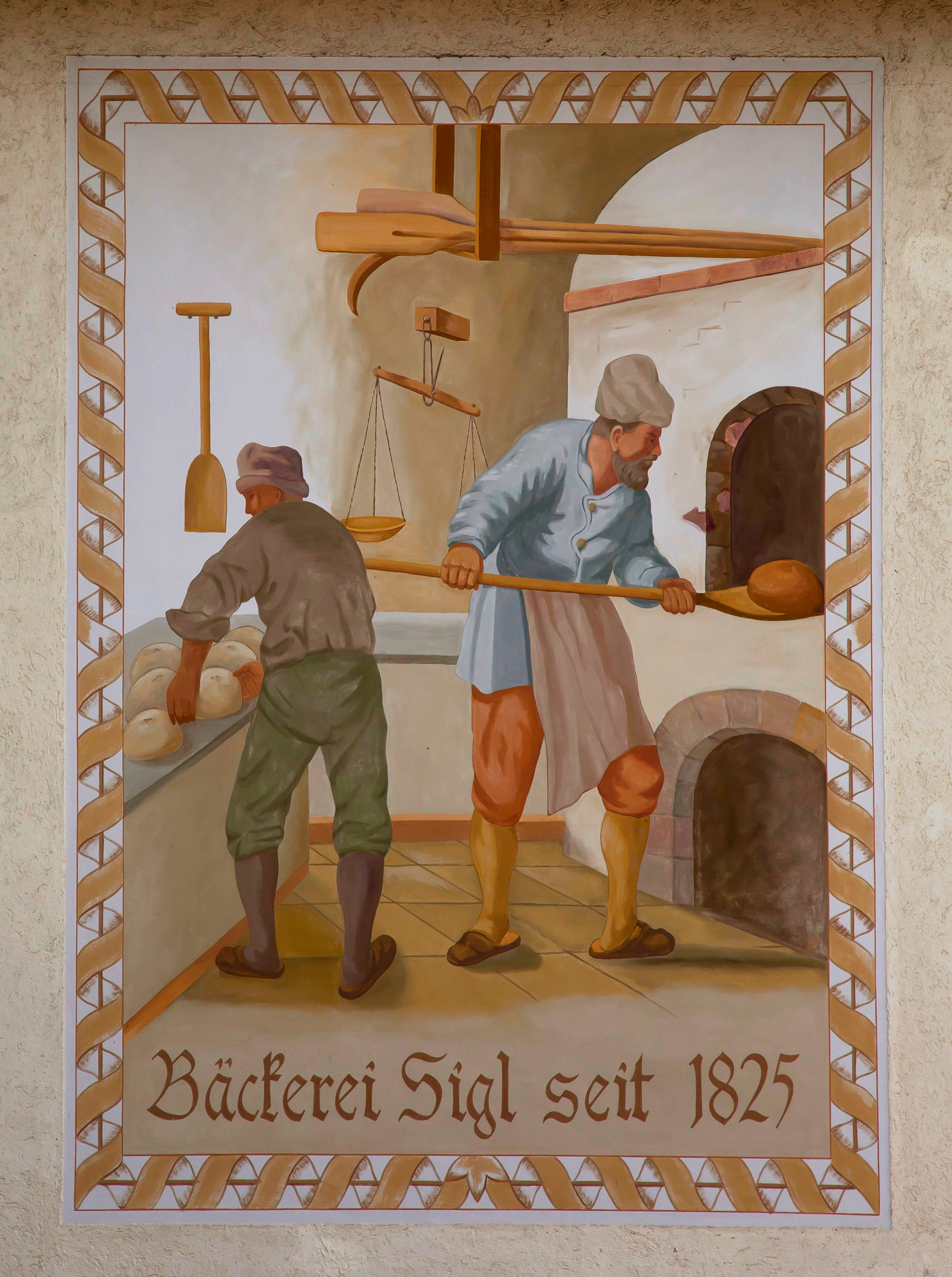 Painting on the wall of Herrsching's backer, Germany